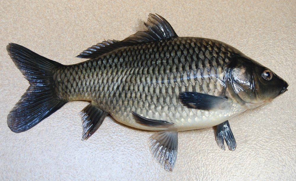 Common carp Cyprinus carpio. Bogor, West Java.